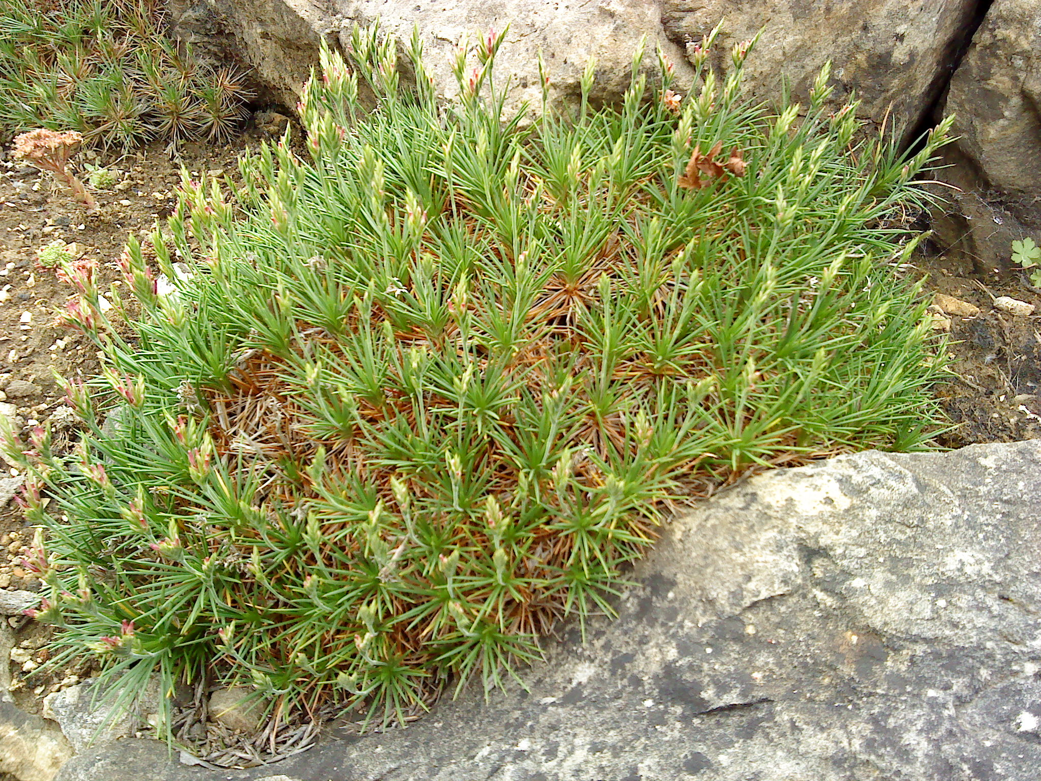 Acantholimon glumaceum